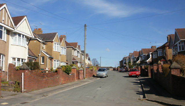 Carlton Road, St Julians, Newport. The view from the far end of Carlton Road, near the footpath, 1736935, looking towards Heather Road.